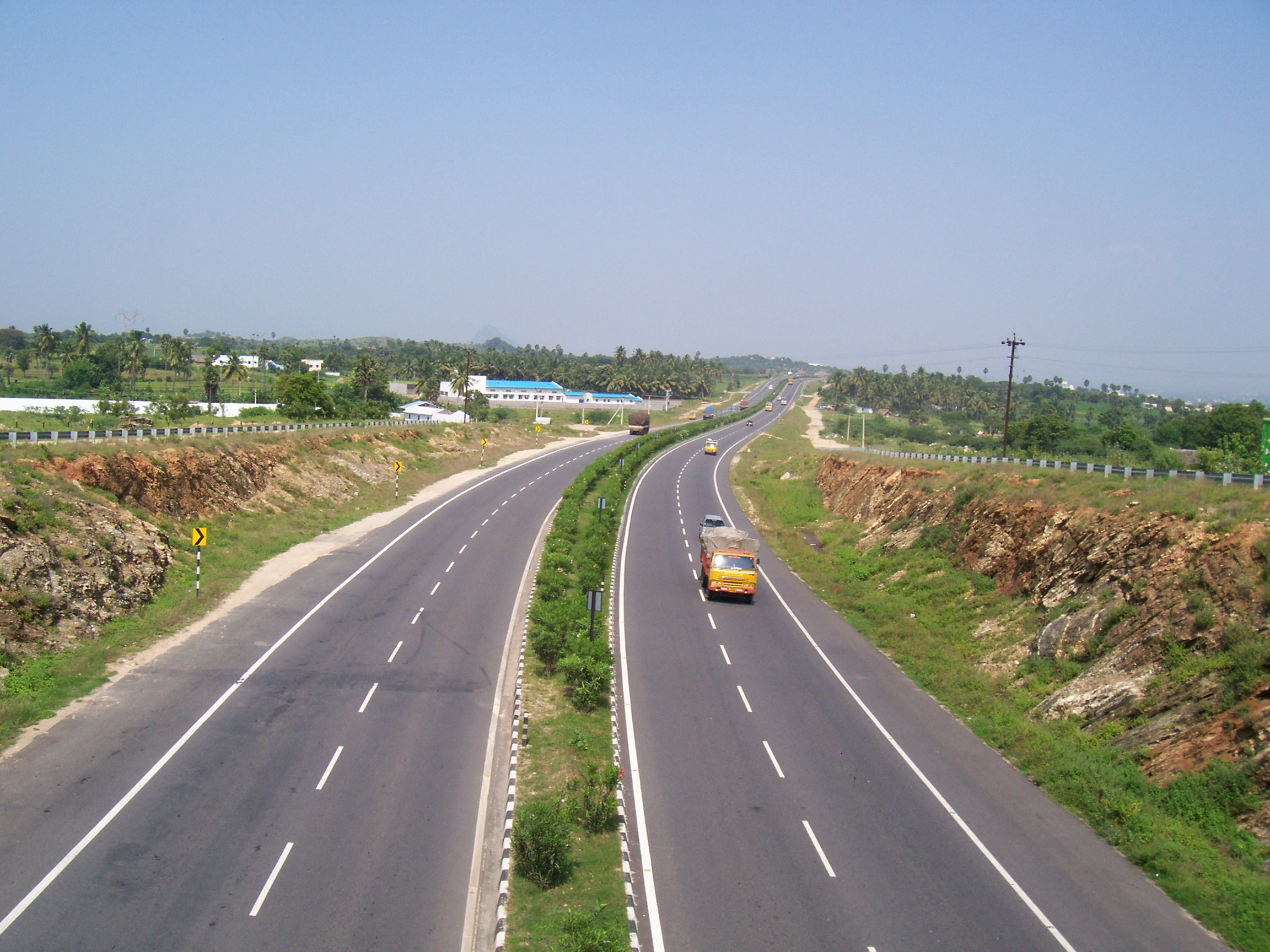 A view of the Salem-Coimbatore Highway from Chittode.